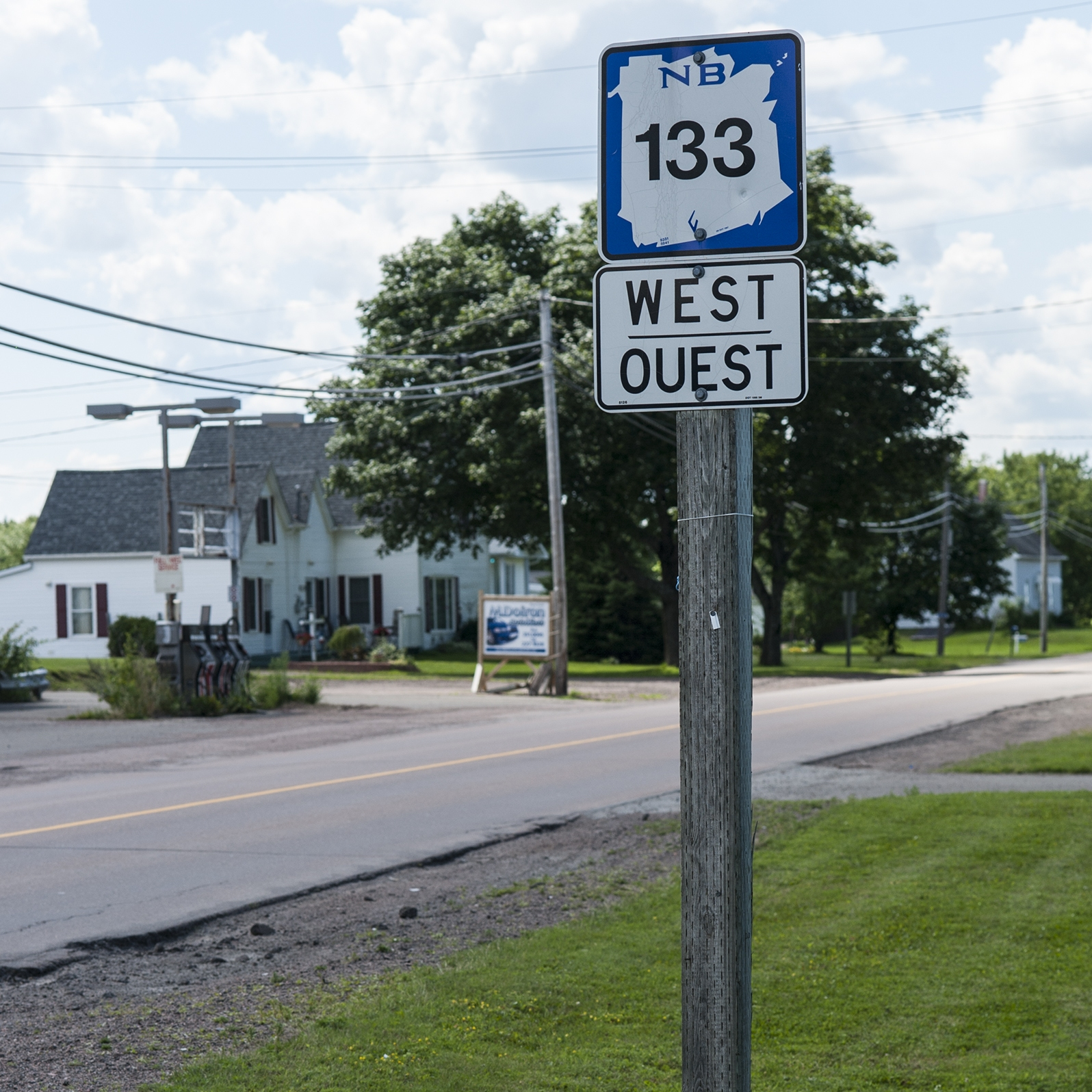 Road sign for Route 133, Cap Pele, New Brunswick